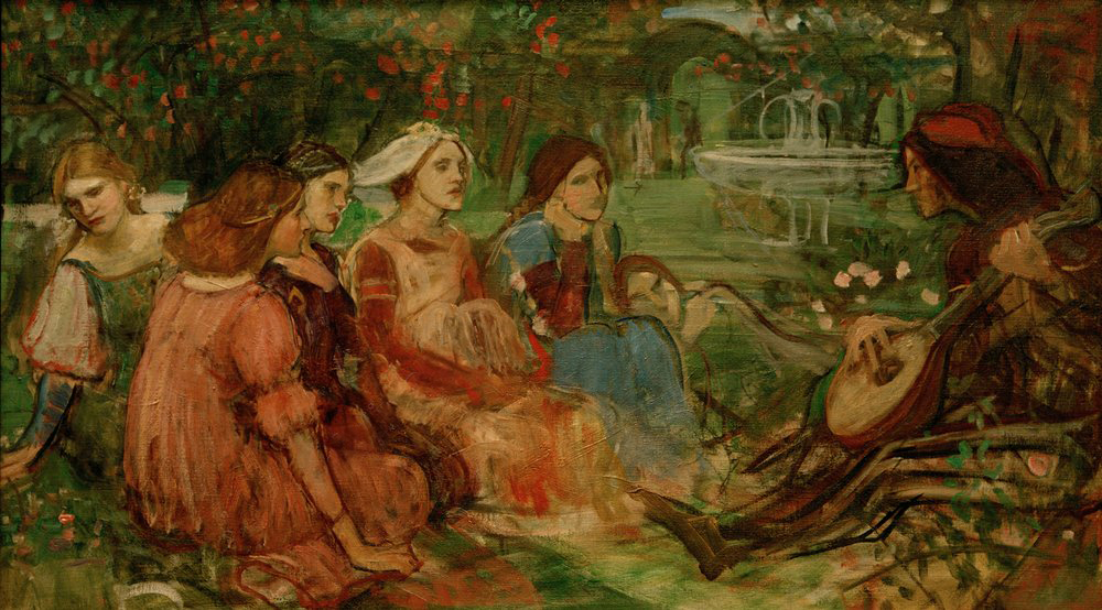 Study for Decameron